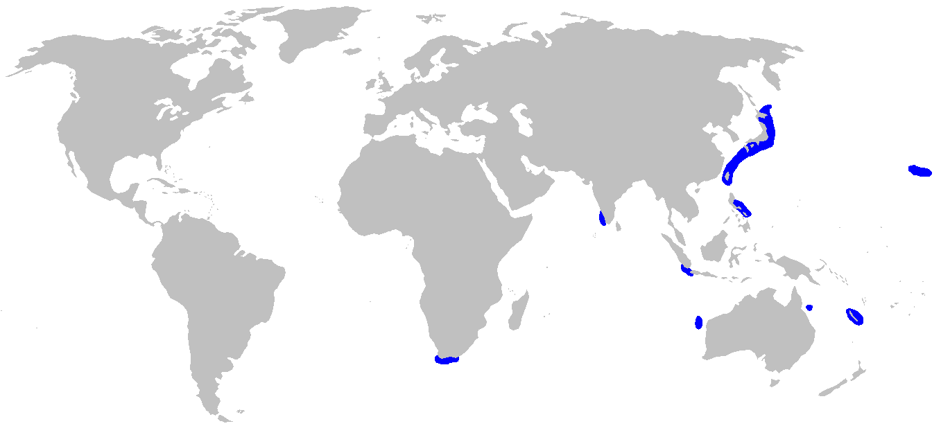 Range of the sixgill stingray (Hexatrygon bickelli), based on Last, P.R.; Stevens, J.D. (2009). Sharks and Rays of Australia (second ed.). Harvard University Press. pp. 396-397.